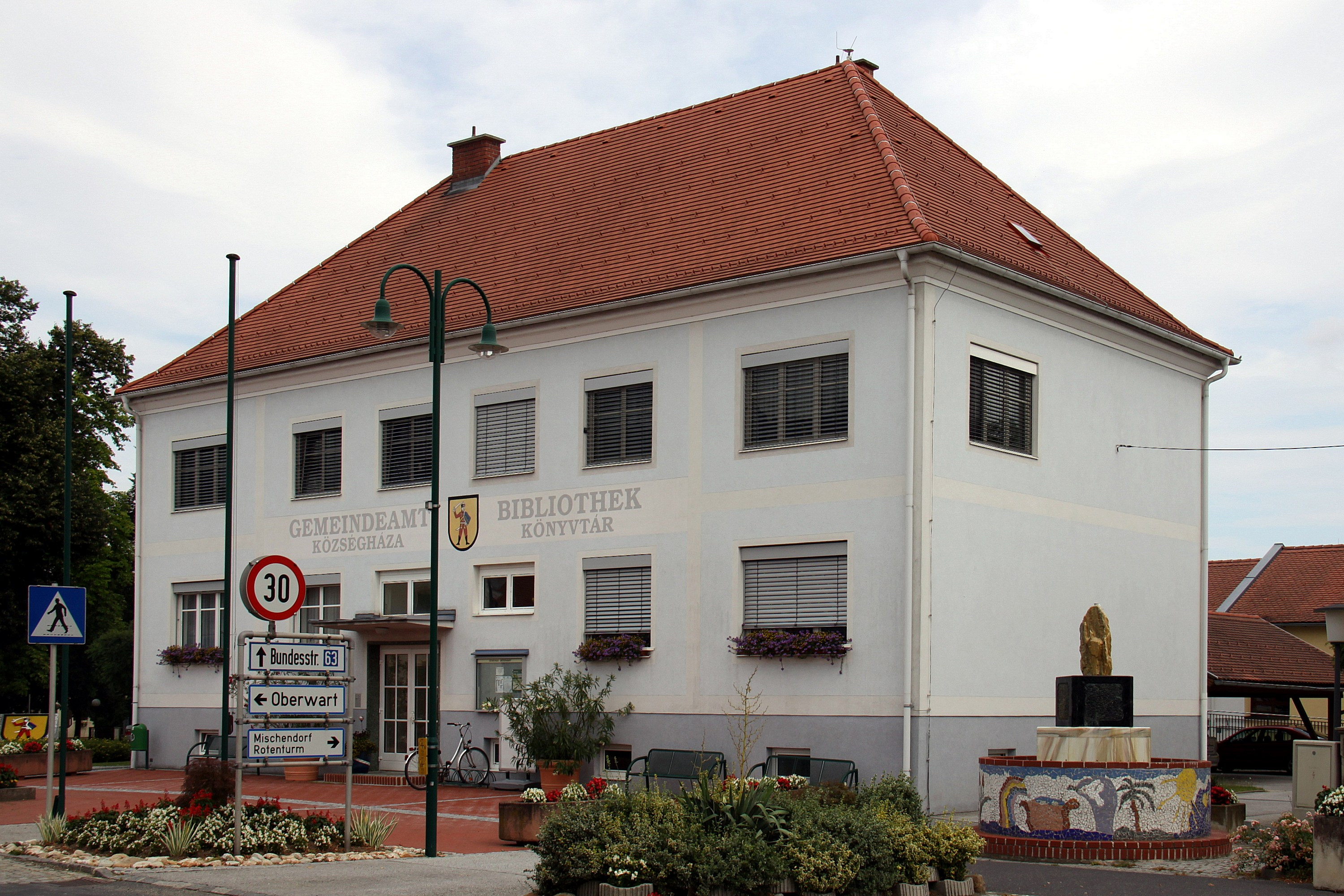 Unterwart - municipal office